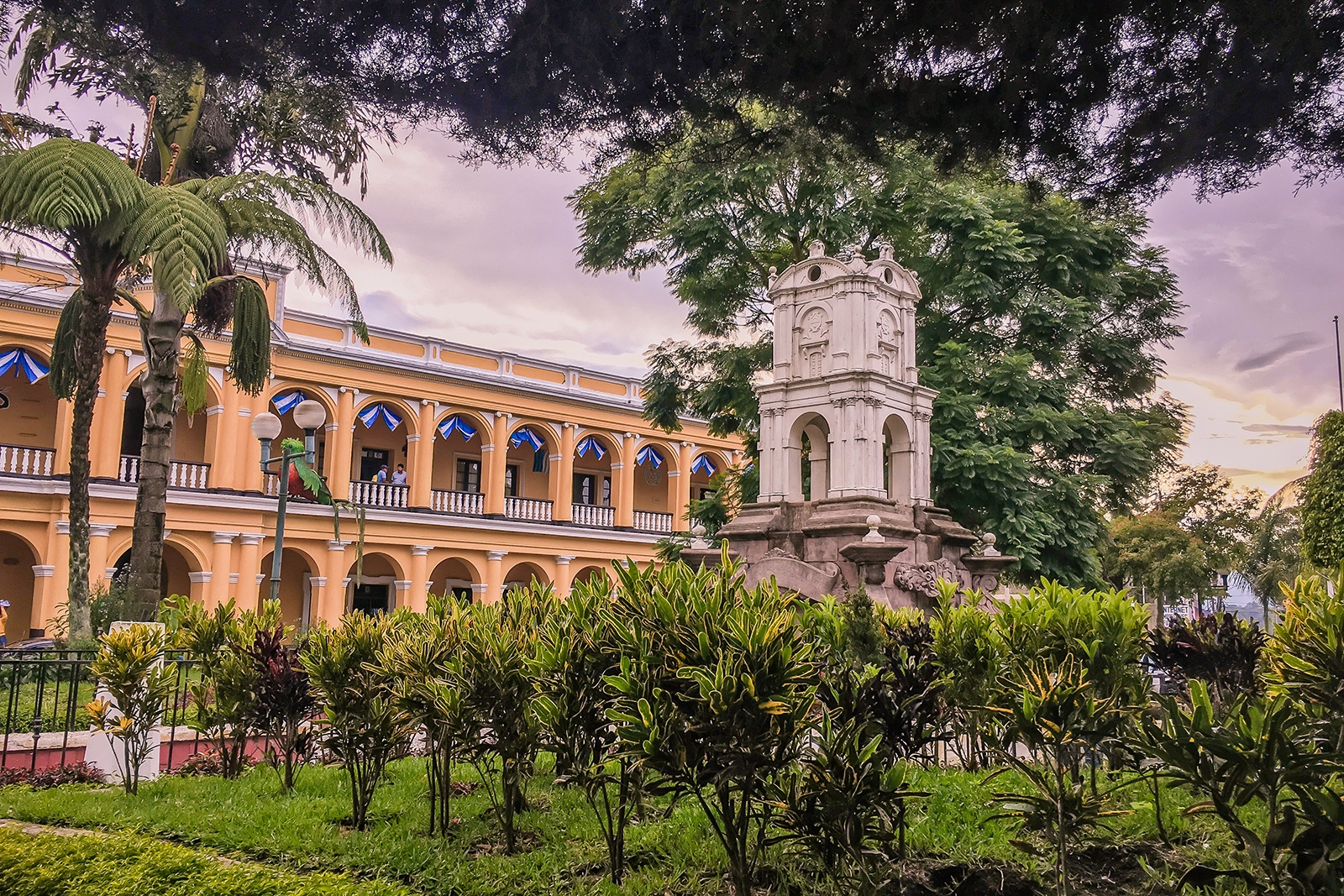 Cobán Central Park, Guatemala